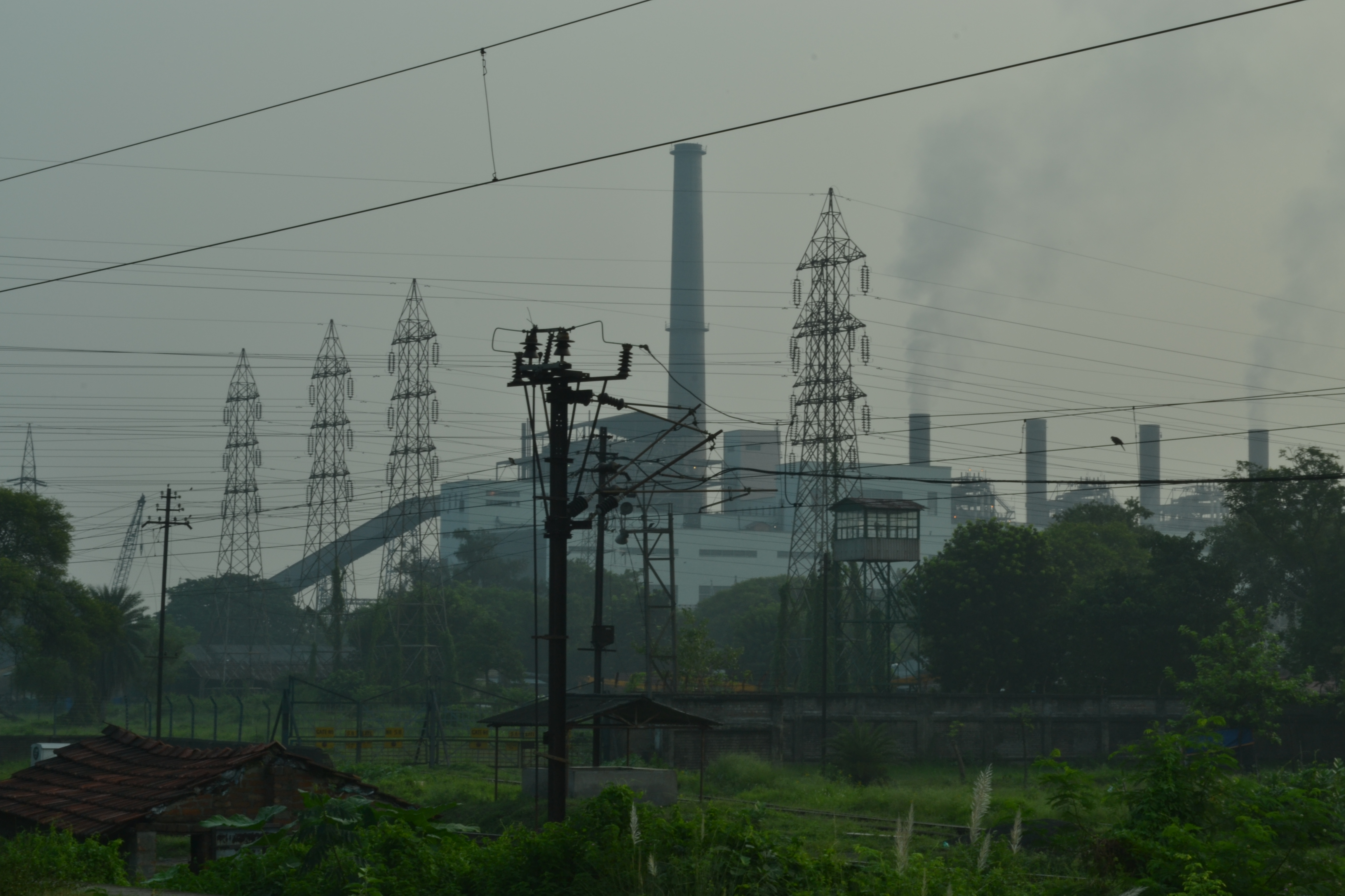 Previously known as Bandel Thermal Power Station, uses coal for running turbines, has a dedicated railway track for bringing in coal.